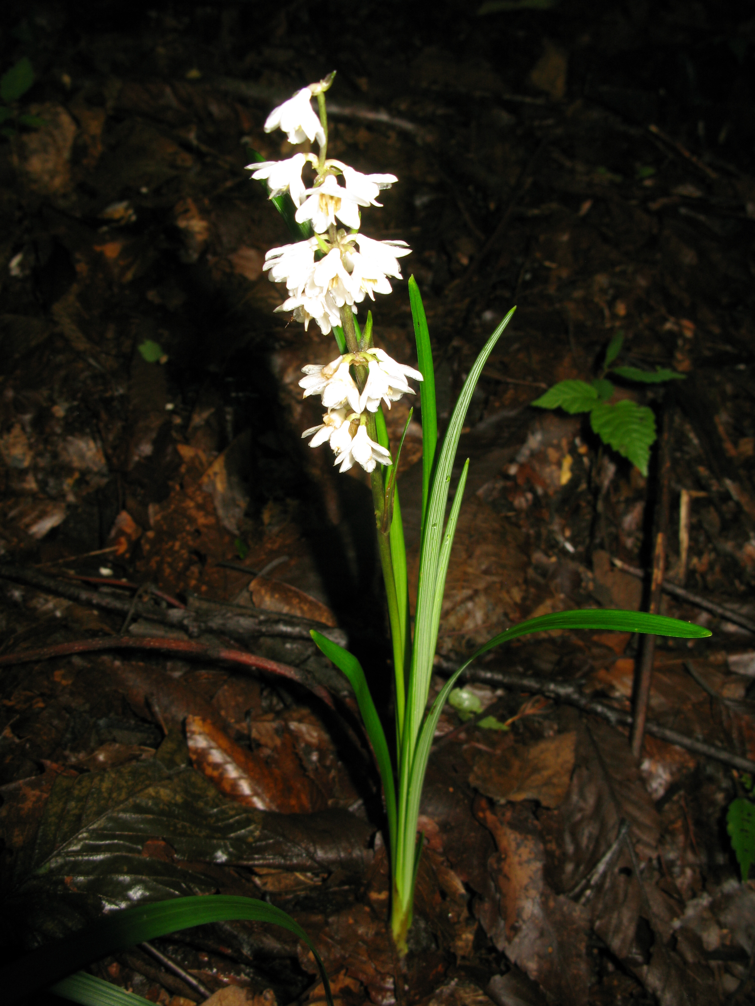 Ophiopogon planiscapus, Aizu area, Fukushima pref., Japan